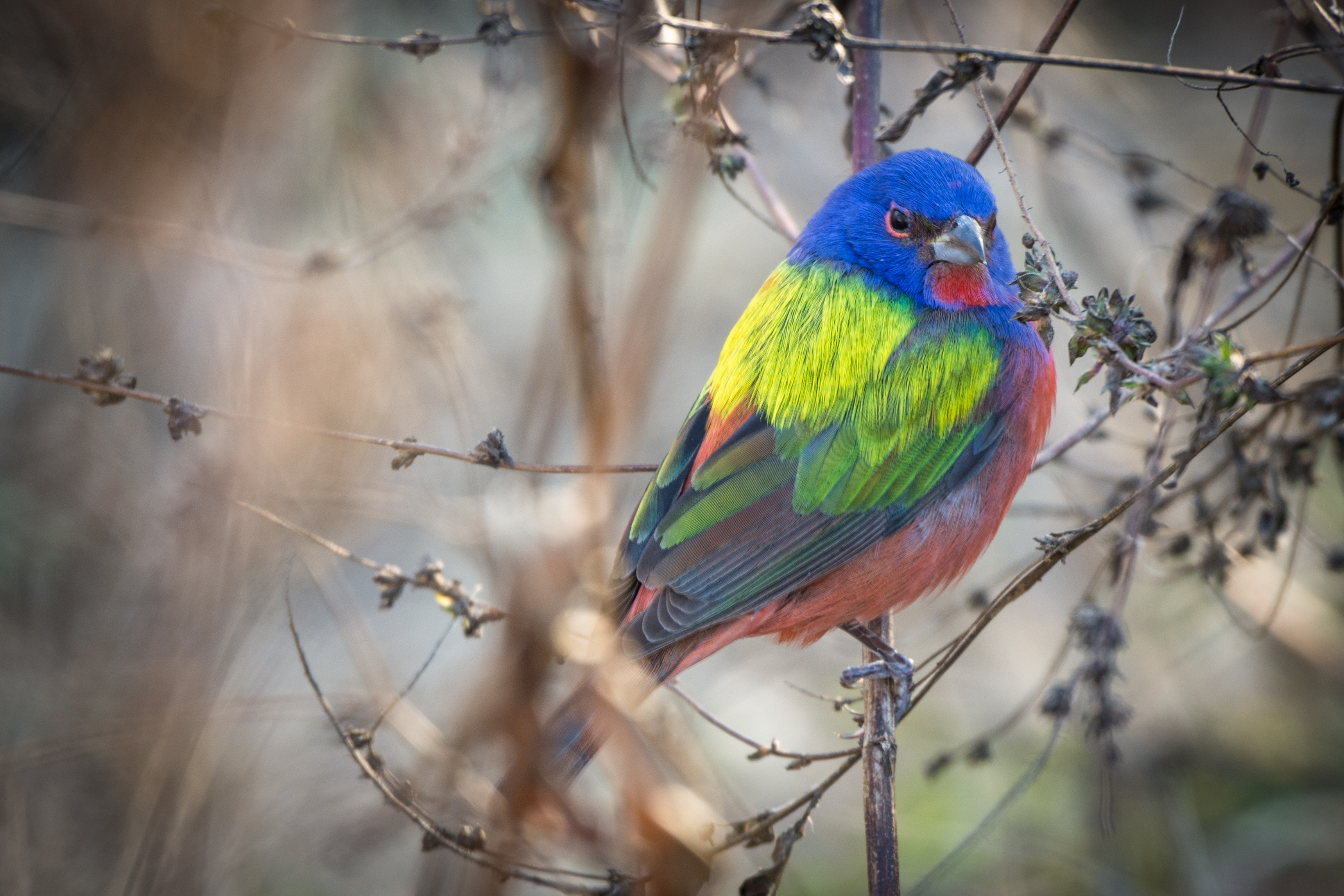 Prospect Park, Brooklyn, NY